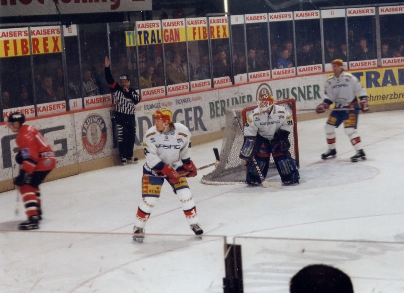 Ice hockey match Eisbären Berlin vs Berlin Capitals, March 1997 photographed by David Herrmann